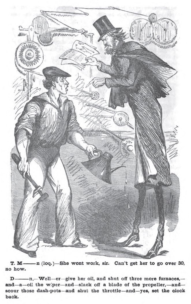 Cartoon of Edward N. Dickerson, mocking his engineering skills. The cartoon was initially published anonymously, but was eventually credited, along with the rest of the contents of the book in which it appeared, to U.S. Navy Second Assistant Engineer Robert Weir.